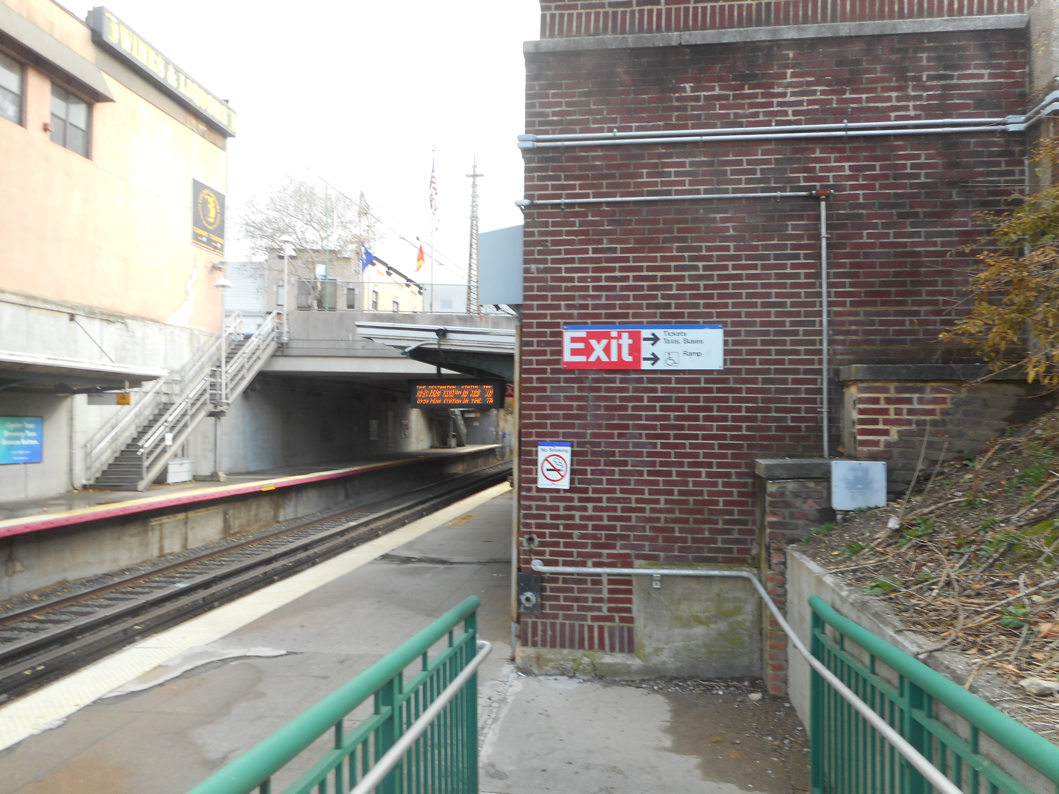 The bottom of the handicapped ramp along the Port Washington-bound platform of the Bayside Long Island Rail Road station in Queens, New York City, The exit sign pointing to tickets, taxis, buses for those in wheelchairs is for commuters on the platform, and thus in the opposite direction.